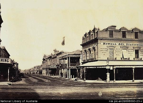 Hindley St., Adelaide [picture]. between 1869 and 1889. 1 photograph : gelatin silver ; 20 cm. x 14.5 cm. ; Part of Captain Sweet's views of South Australia [picture].